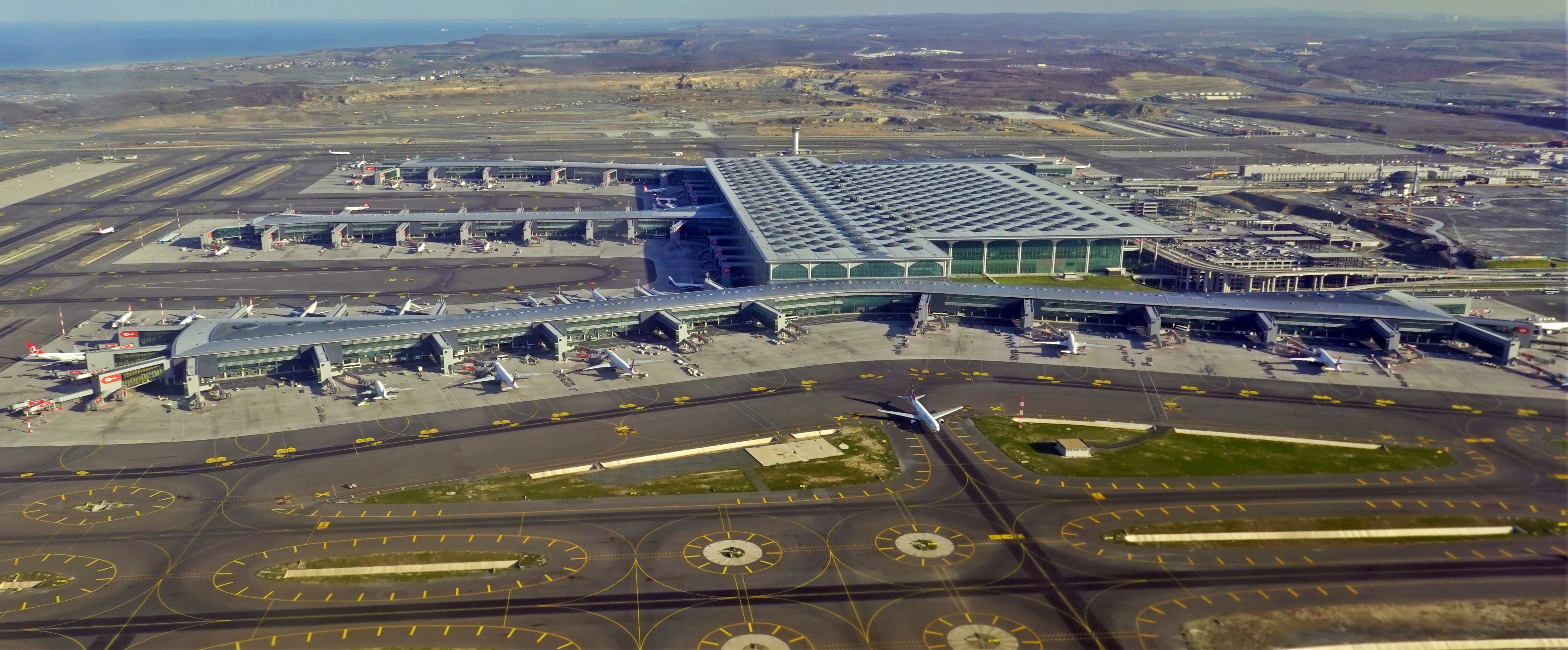 İstanbul Yeni Havalimanı Airport main building, airplane wing tip